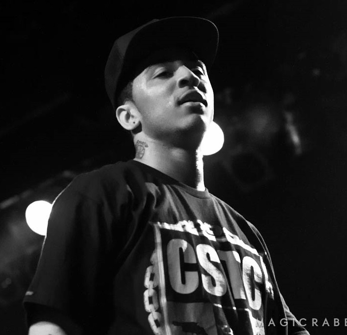 Image of American rapper Kirko Bangz on March 29, 2012, cropped from original